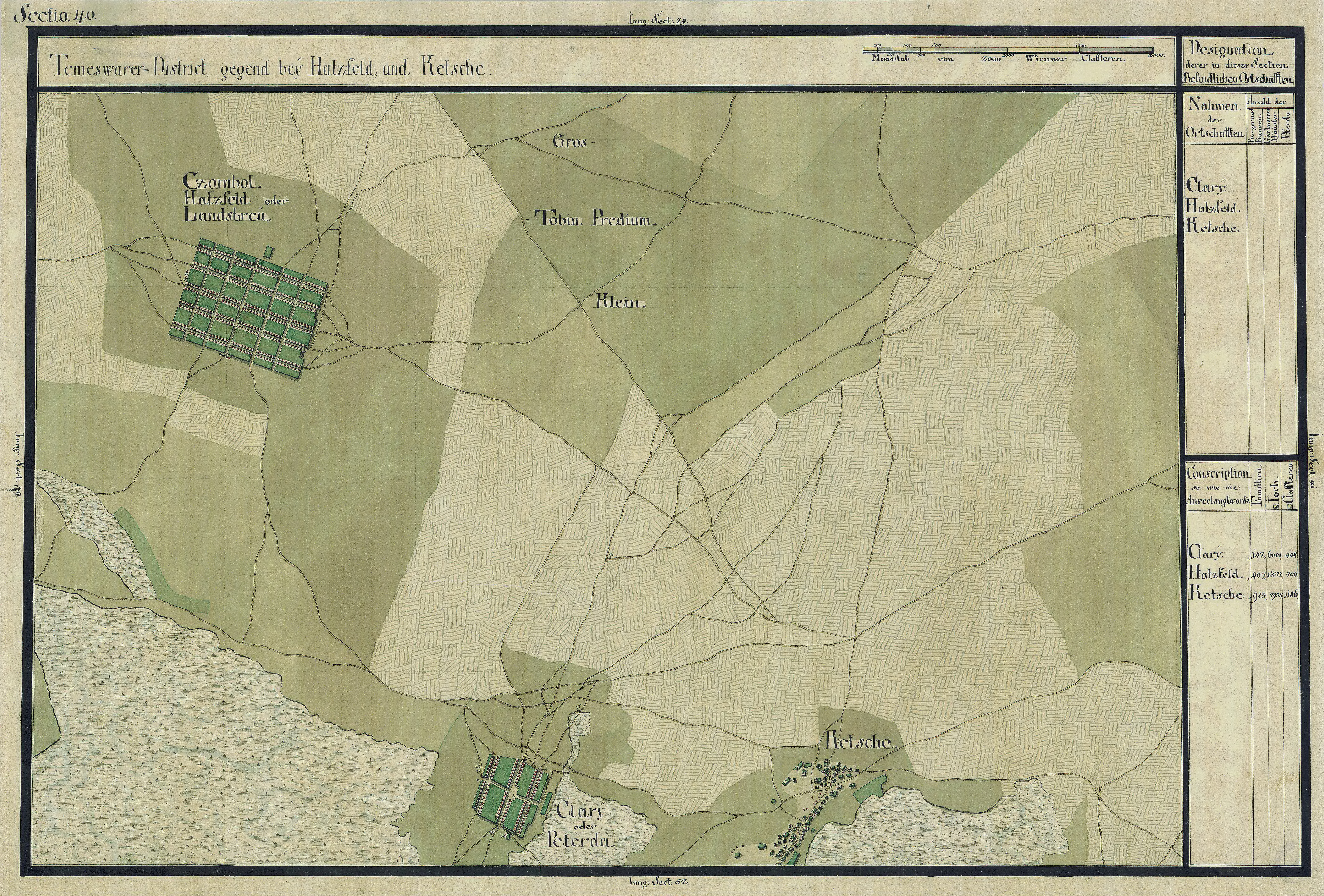 The Banat region in the cadastral maps: Josephinische Landesaufnahme, 1769-72. Josephinische Landaufnahme pg040